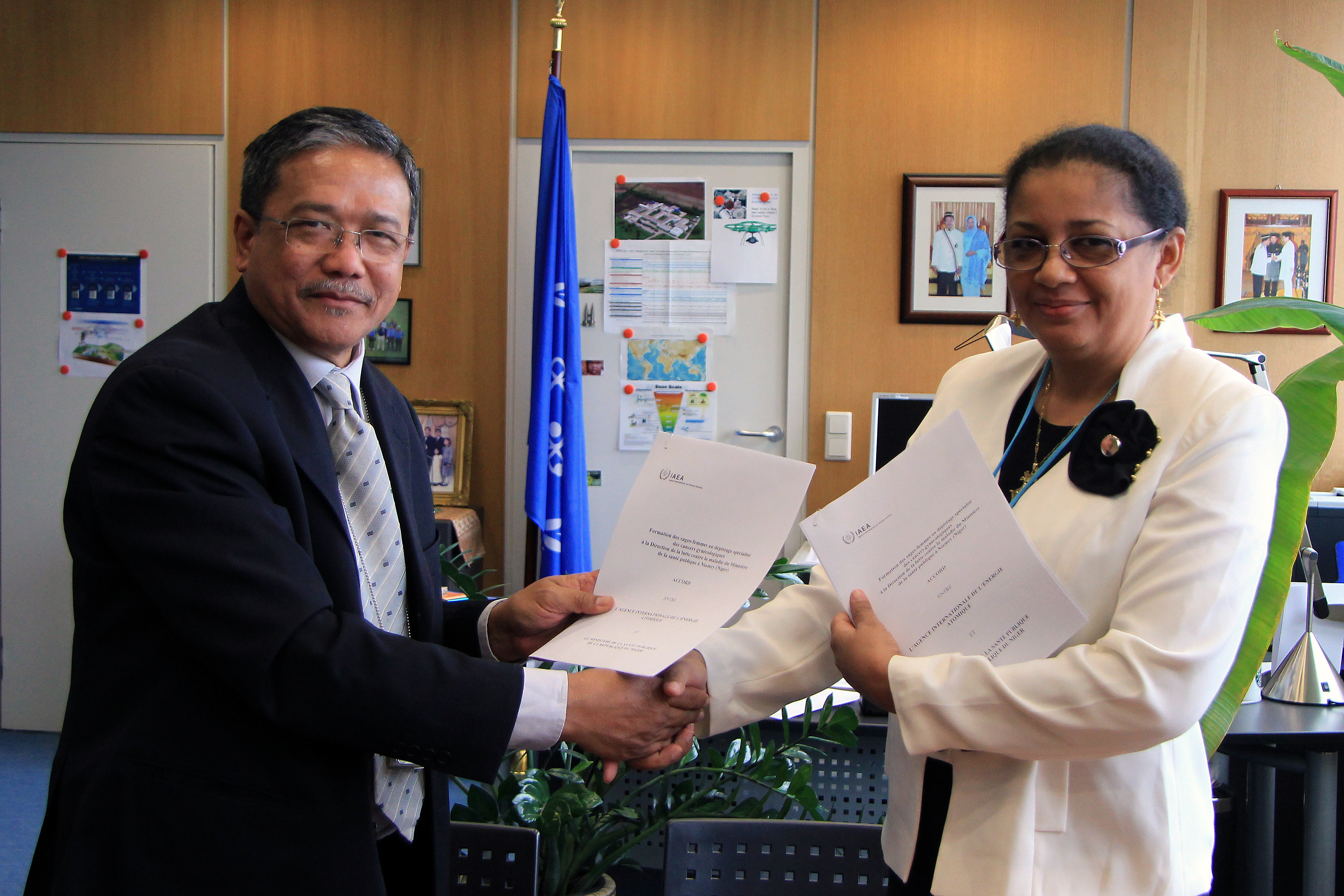 Ms. Rakiatou Christelle Jackou Kafa, Deputy Minister for Industrial Development, Niger, receives a signed agreement between the Government of Niger and the IAEA to support a training course on gynaecological cancers (breast and cervical) for midwives in Niger from IAEA Deputy Director General and Head of the Department of Nuclear Sciences and Applications, Mr. Daud Mohamed. The funding for this project was provided by the Principality of Monaco, a long-time supporter of the IAEA Programme of Action for Cancer Therapy (PACT). IAEA, Vienna, Austria. 18 September 2013. Photo Credit: Brandon Gebka / IAEA